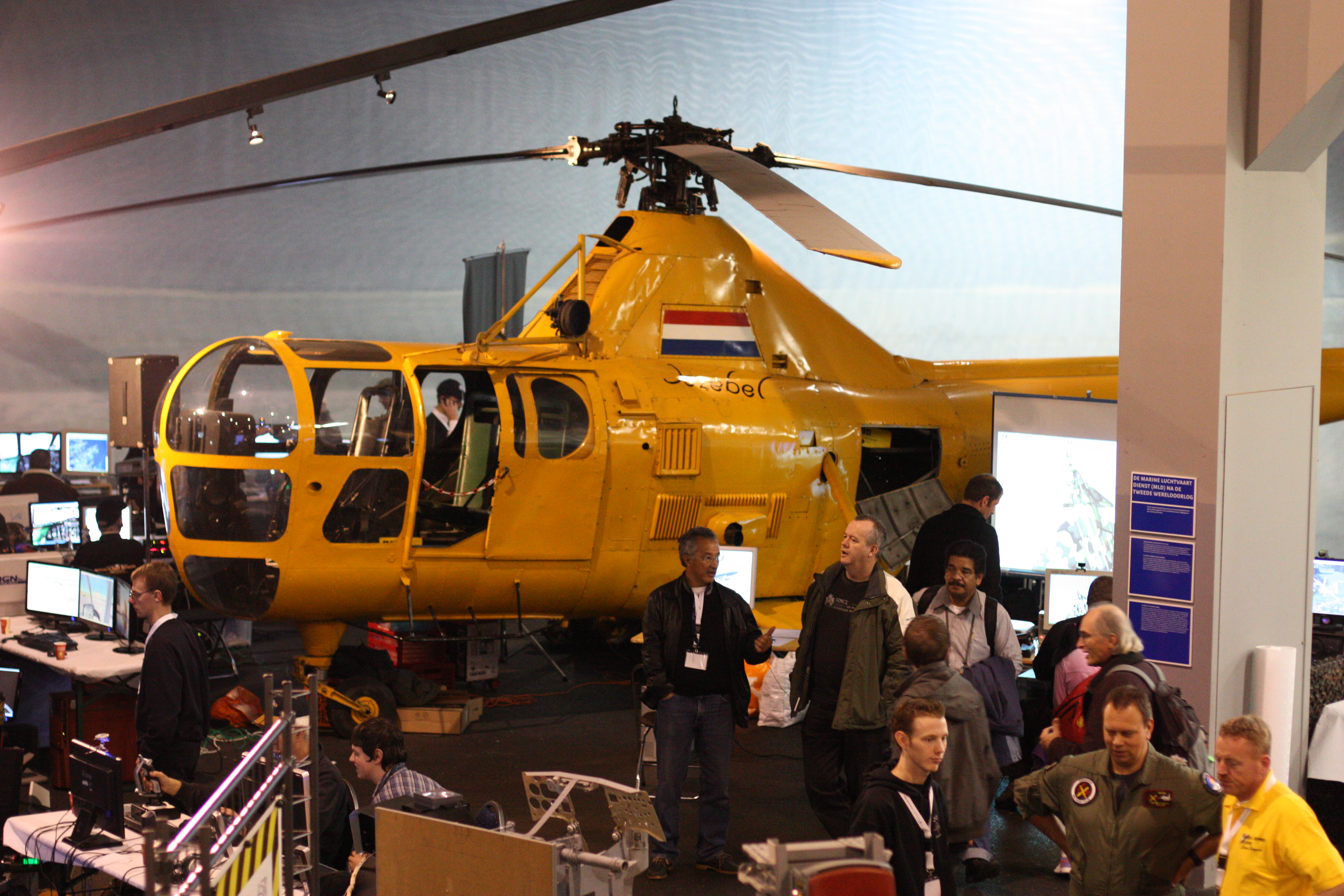 Lelystad Flugsimulatorwochenende, bei Amsterdam, November 2009; Flight Simulation conference at Aviodrome Lelystad